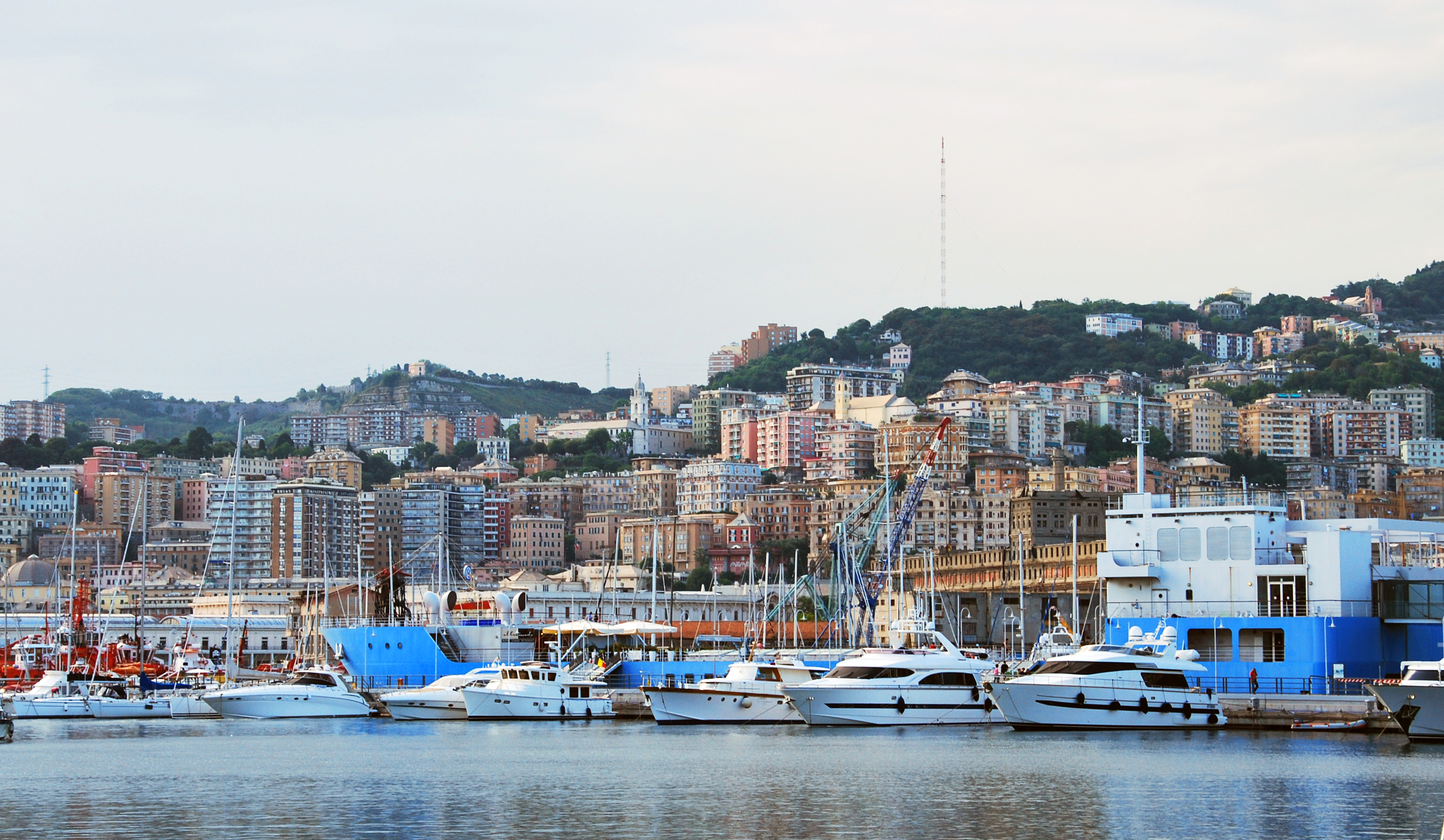 Genoa(Italy), view of the quarter of San Teodoro from the port